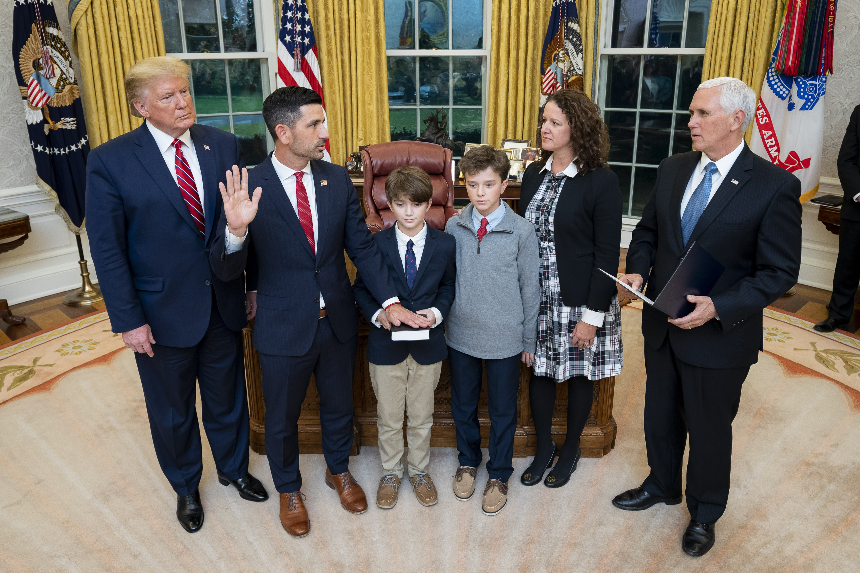 President Donald J. Trump attends the ceremonial swearing-in of Department of Homeland Security Undersecretary Chad Wolf, joined by his family, sworn-in by Vice President Mike Pence Friday, Nov. 15, 2019, in the Oval Office of the White House. (Official White House Photo by Tia Dufour)